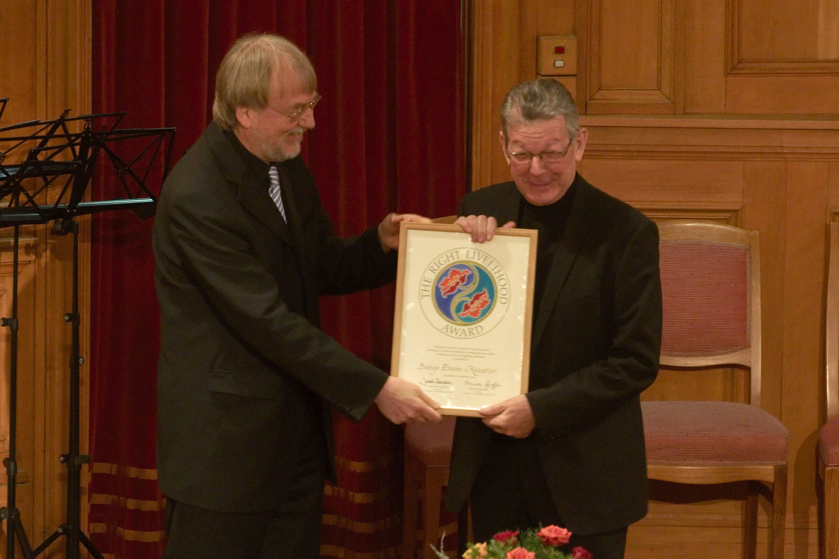 Award ceremony of the Right Livelihood Awards 2010